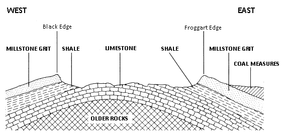 A cross section of the Peak District, England, from West to East, showing the structure of an eroded dome.